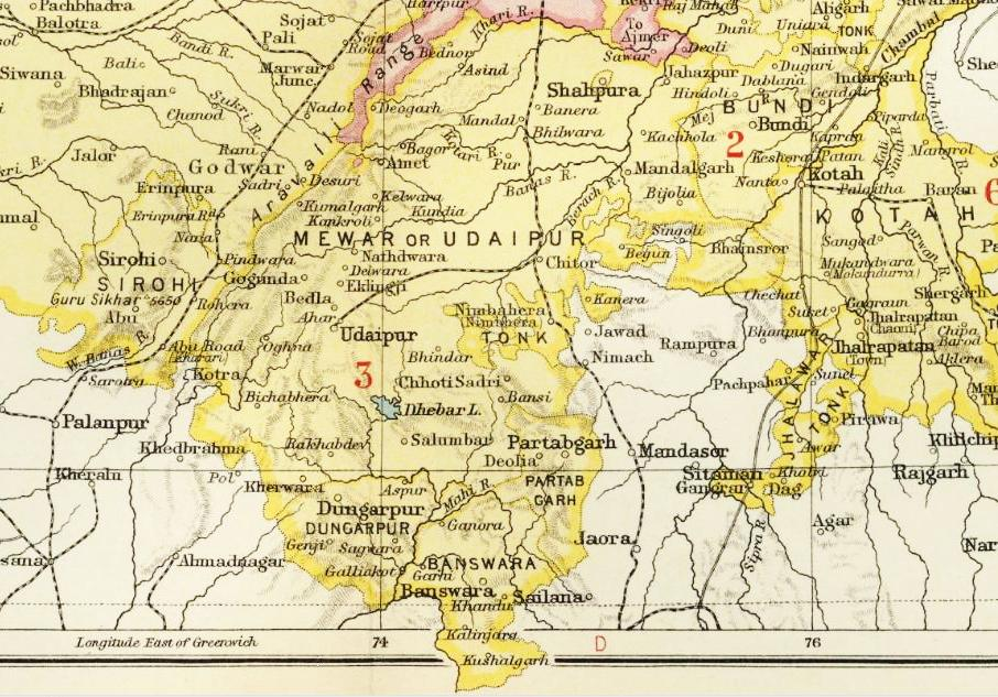 1909 Imperial Gazetteer of India Rajputana map section